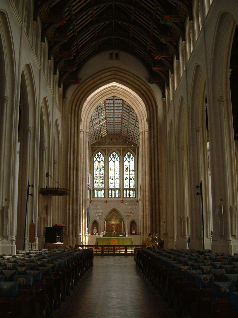 The nave of Bury St Edmunds Cathedral, Suffolk. Taken by James@hopgrove, August 2005.